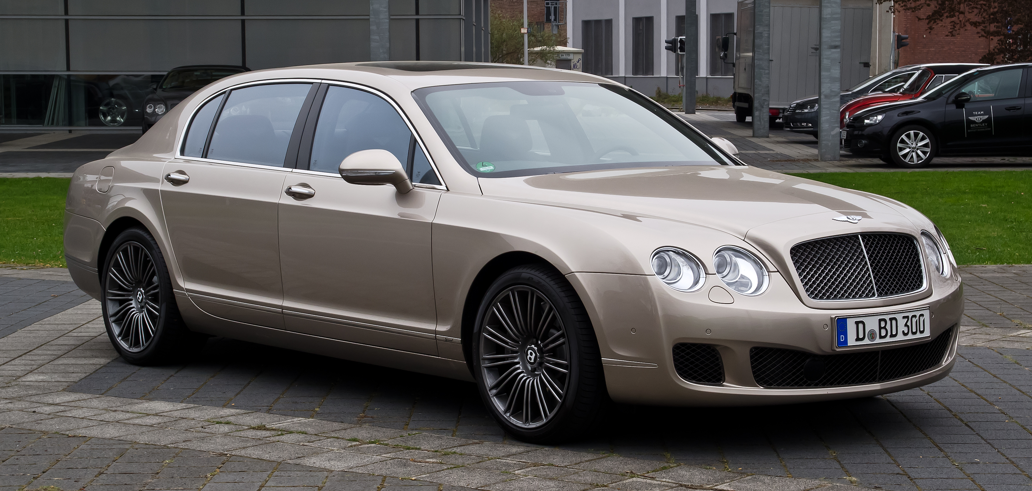 Bentley Continental Flying Spur Speed